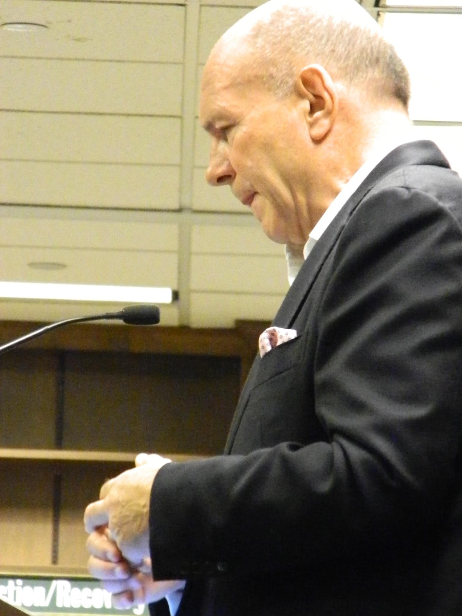 Winchester at New York Barnes & Noble for book signing and discussion, Oct. 21, 2013.